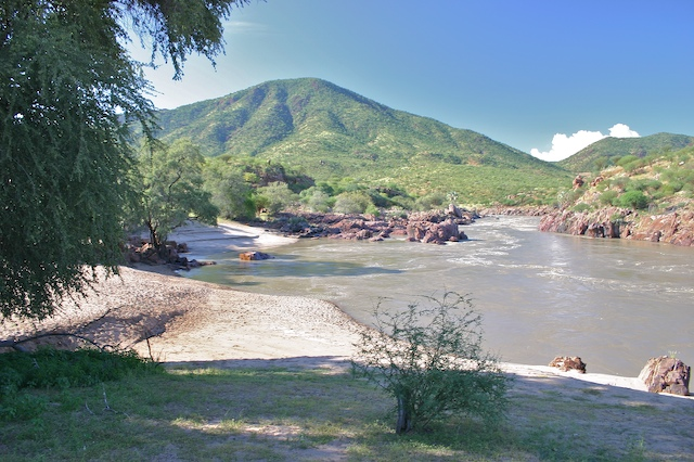 Kunene river near Epupa